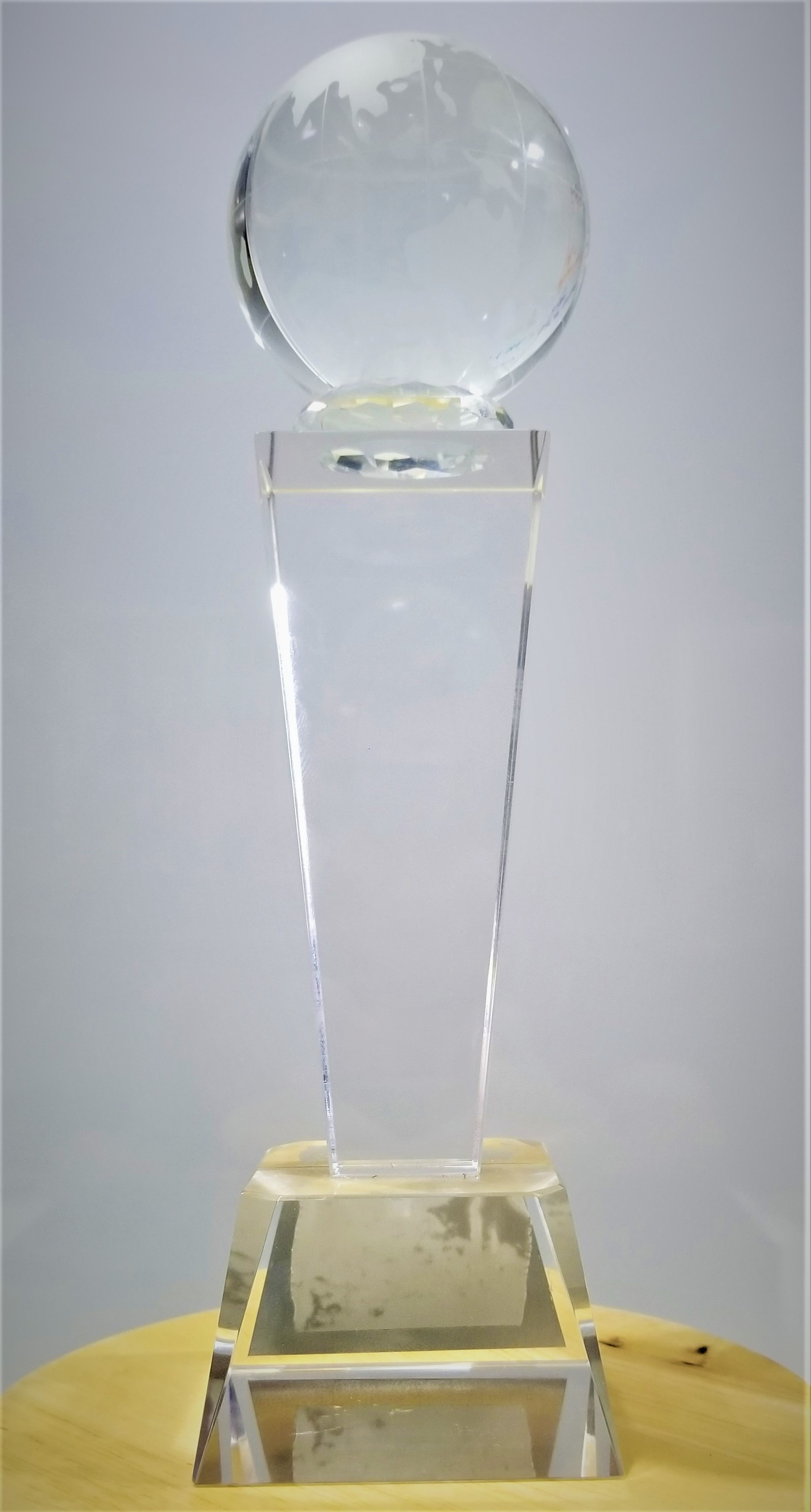 lait trophy